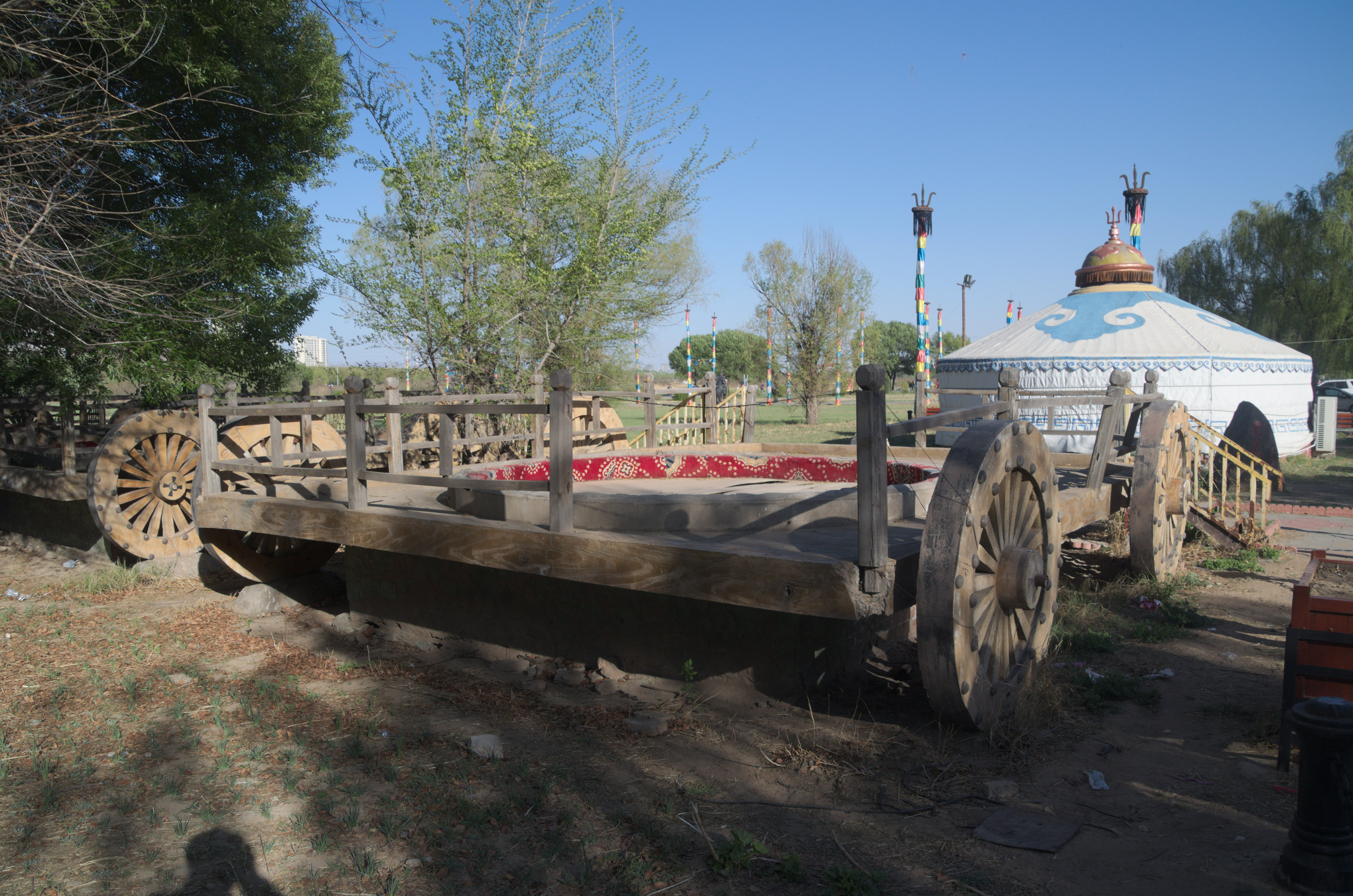 Car of a ger tereg (yurt on car), in a Baotou parc, in Inner-Mongolia autonomous region, China. We can see where the yurt is mounted on the car.